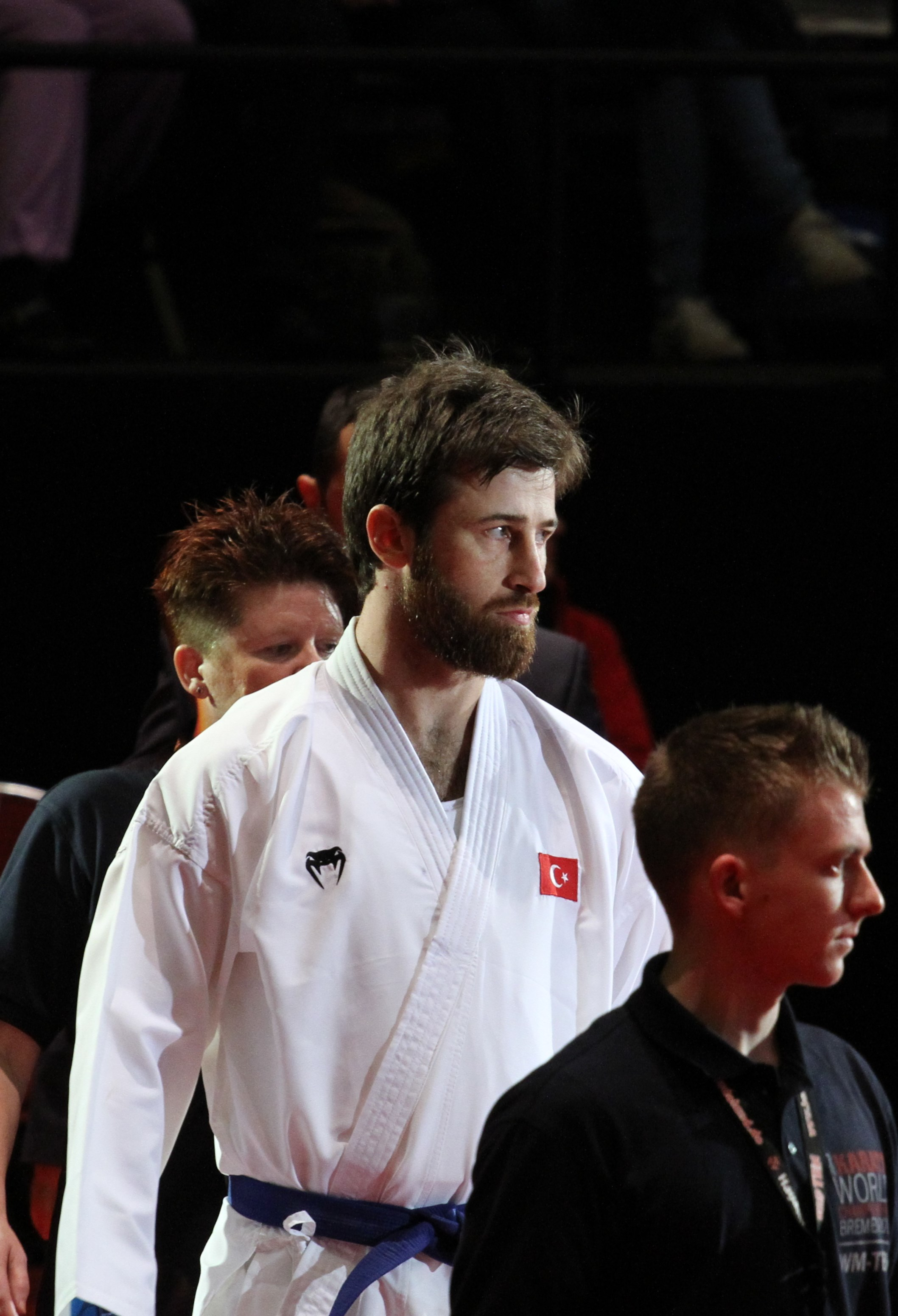 Enes Erkan, Karate world-champion 2012 und 2014 +84 kg